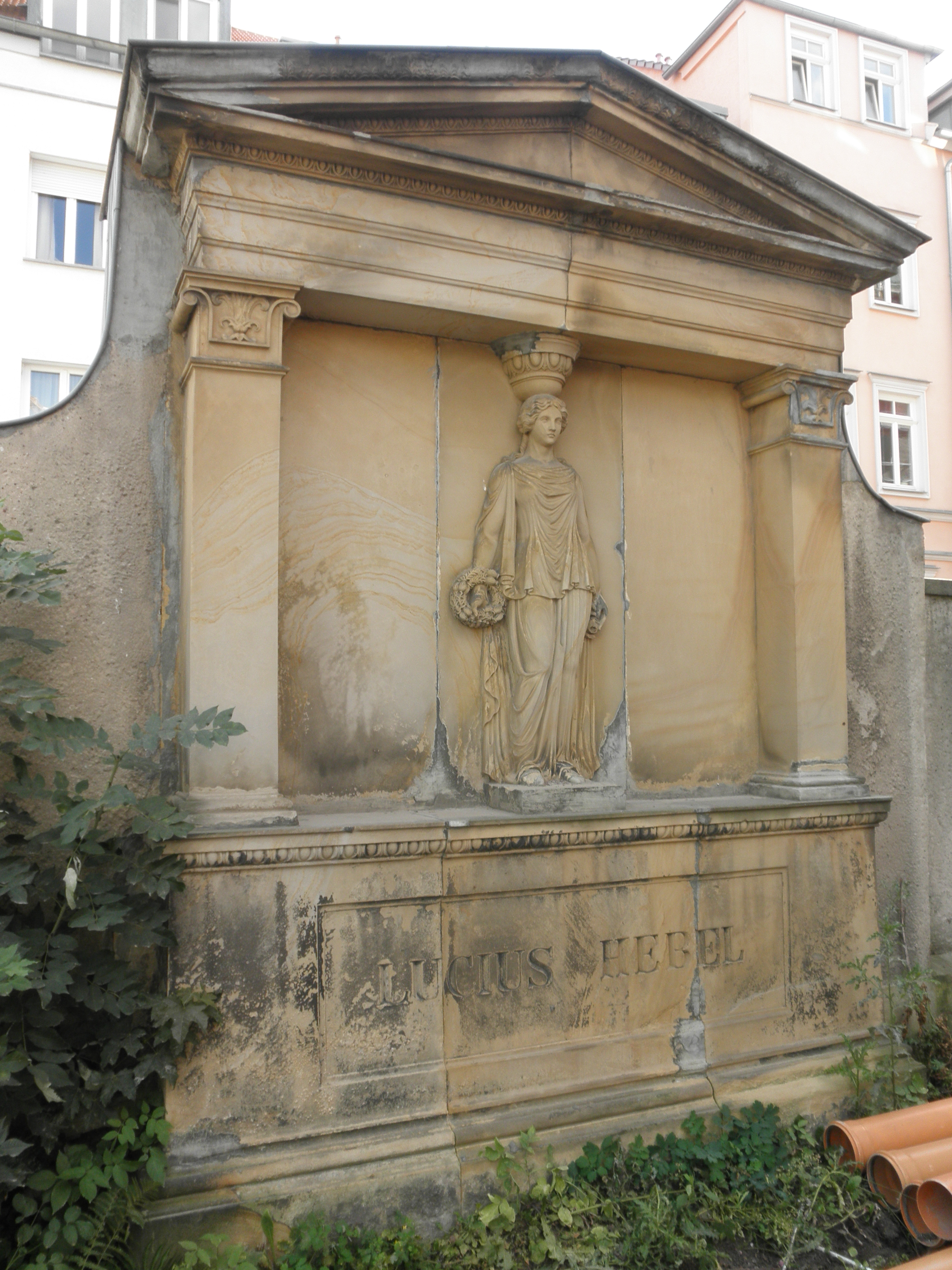 Grabmal der Stifter Sebastian Lucius und seiner Frau Marianne, geb. Hebel, in Erfurt - Thüringen, Deutschland.